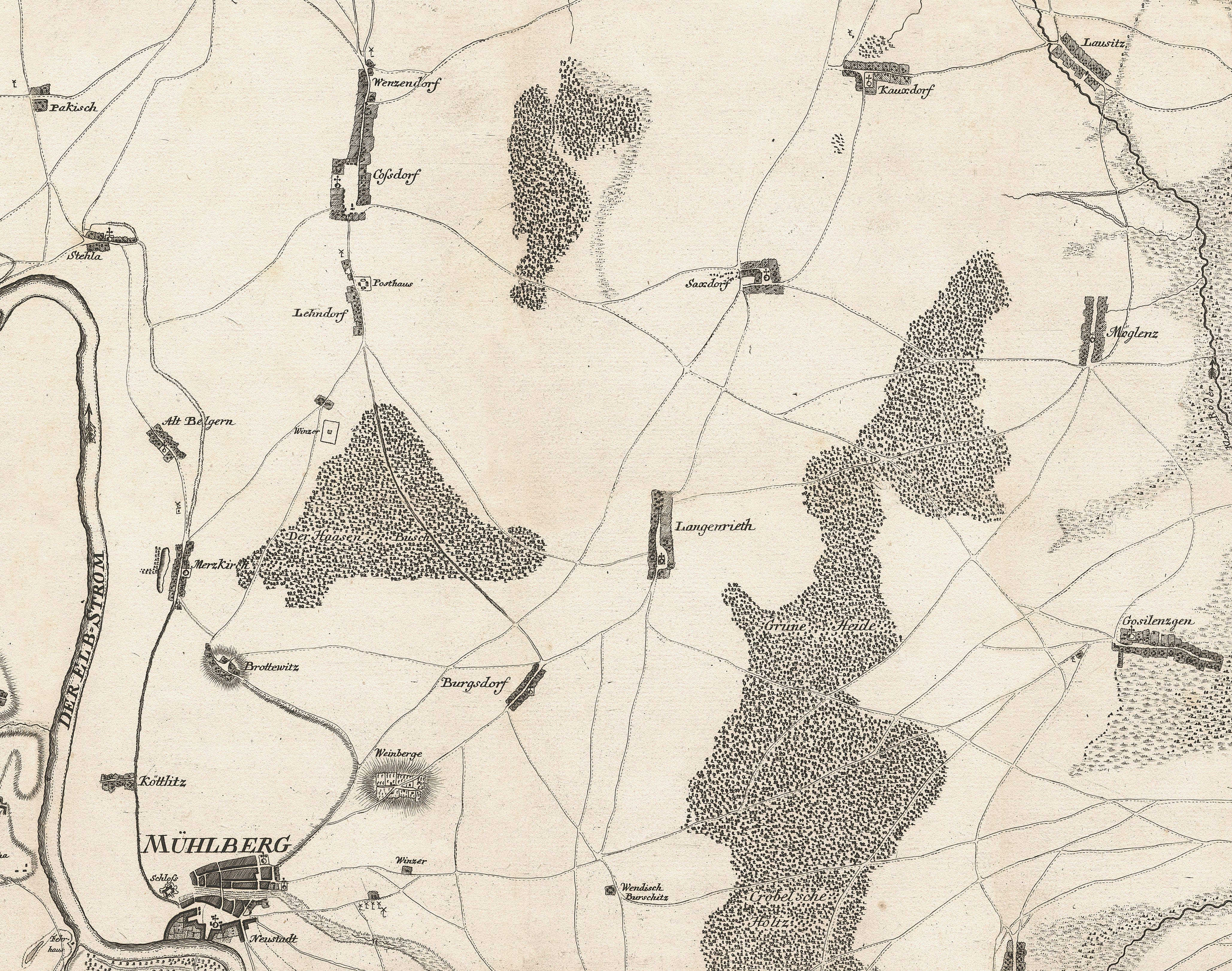 view of Mühlberg (from part Mühlberg) of the map "Situations und Cabinets=Carte von einem anderen Teile des Churfürstentums Sachsen" Major Isaak Jacob von Petri